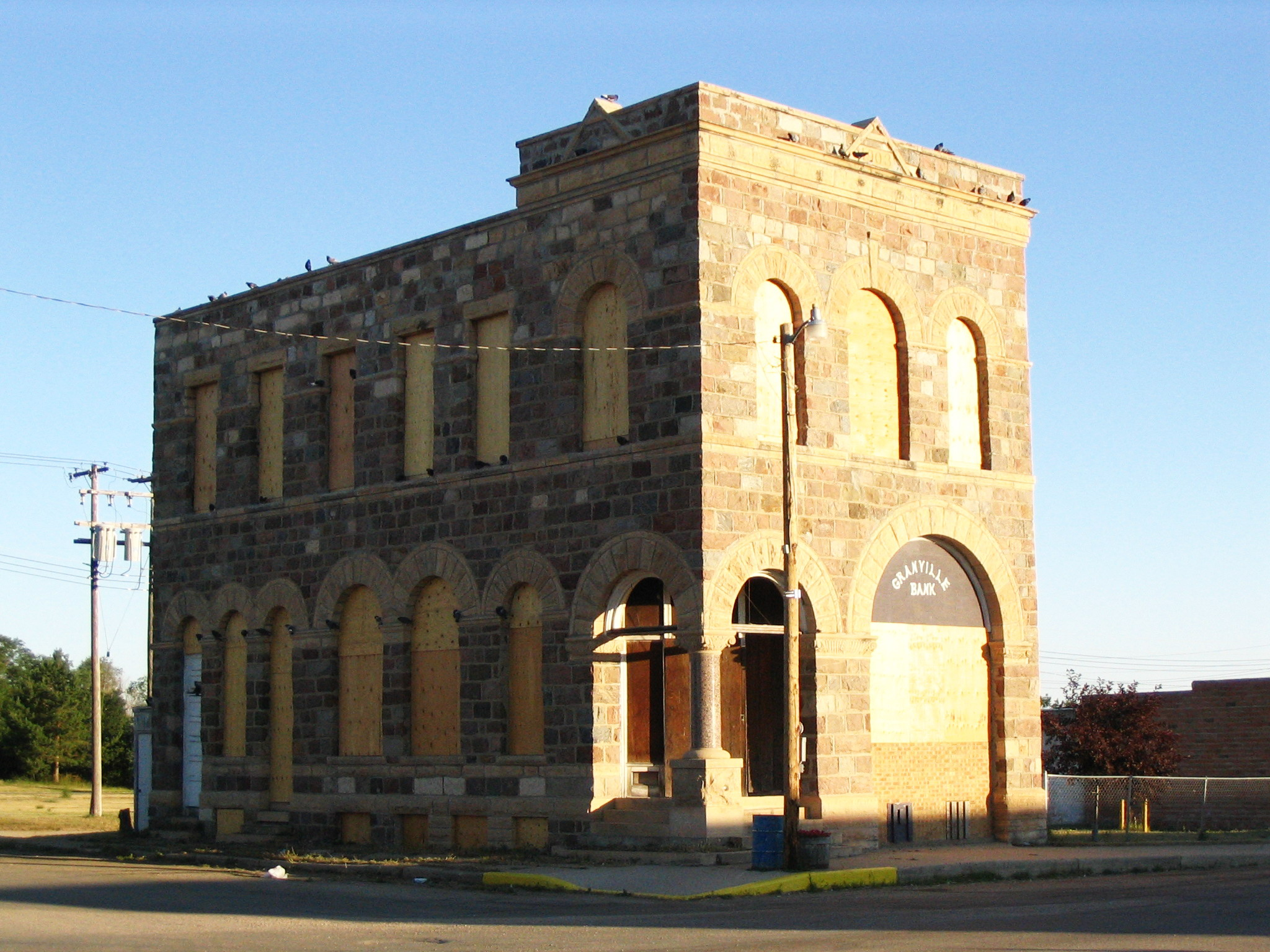 The National Register listed Granville State Bank (1903) in Granville, McHenry County, North Dakota, United States.